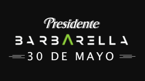 barbarella 2018